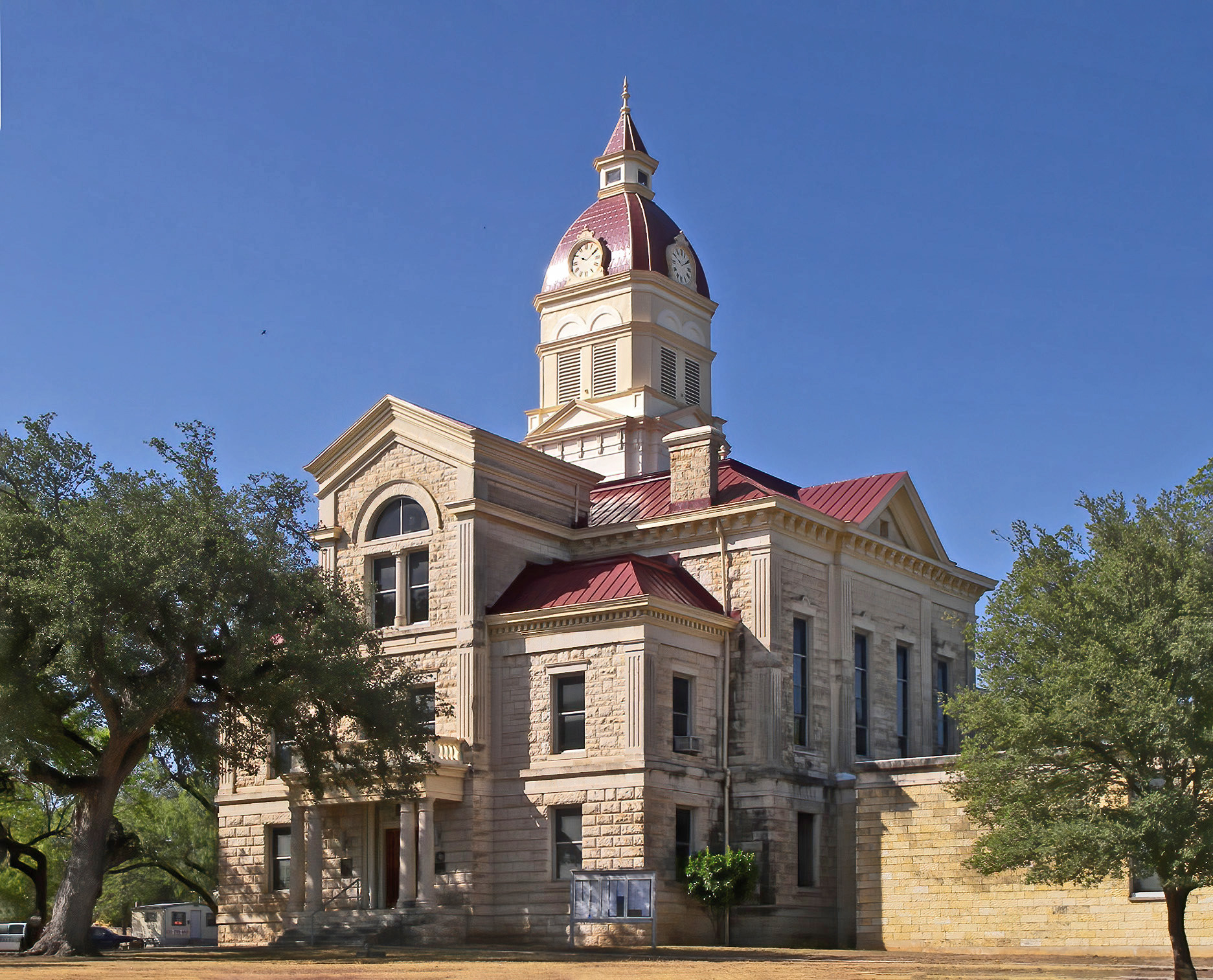 The Bandera County, Texas courthouse located in Bandera, Texas, United States. The courthouse was built in 1890 and listed on the National Register of Historic Places on October 31, 1979.